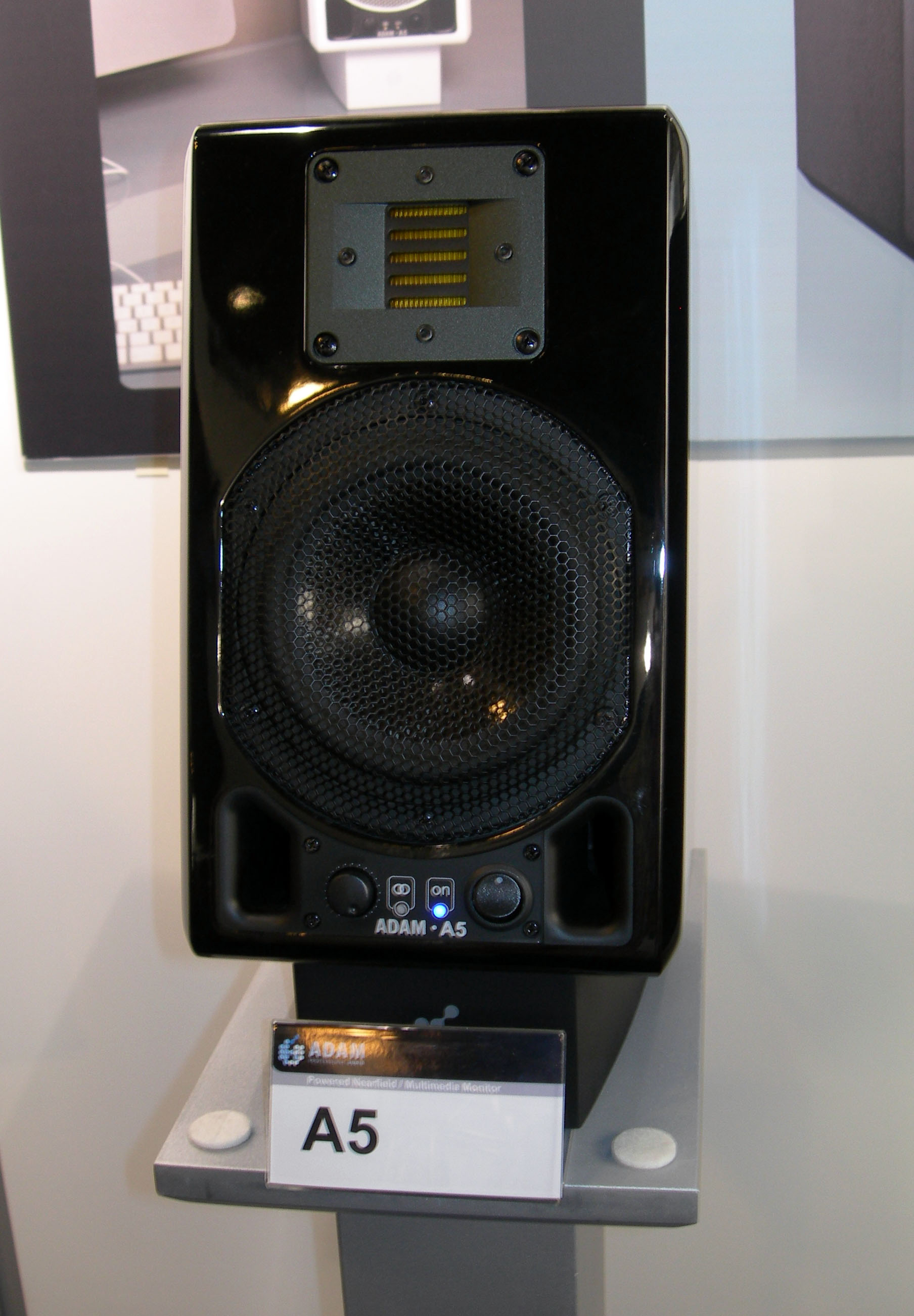 ADAM A5 near field active monitor